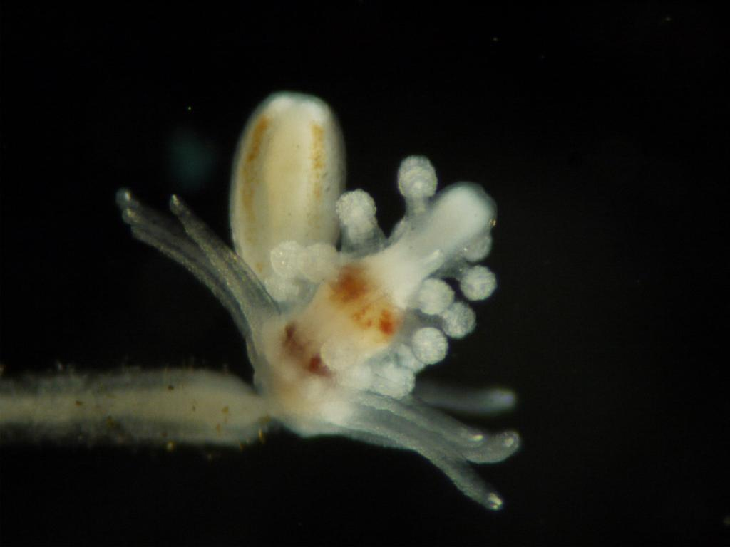 Halocordyle disticha(Halocordylidae)